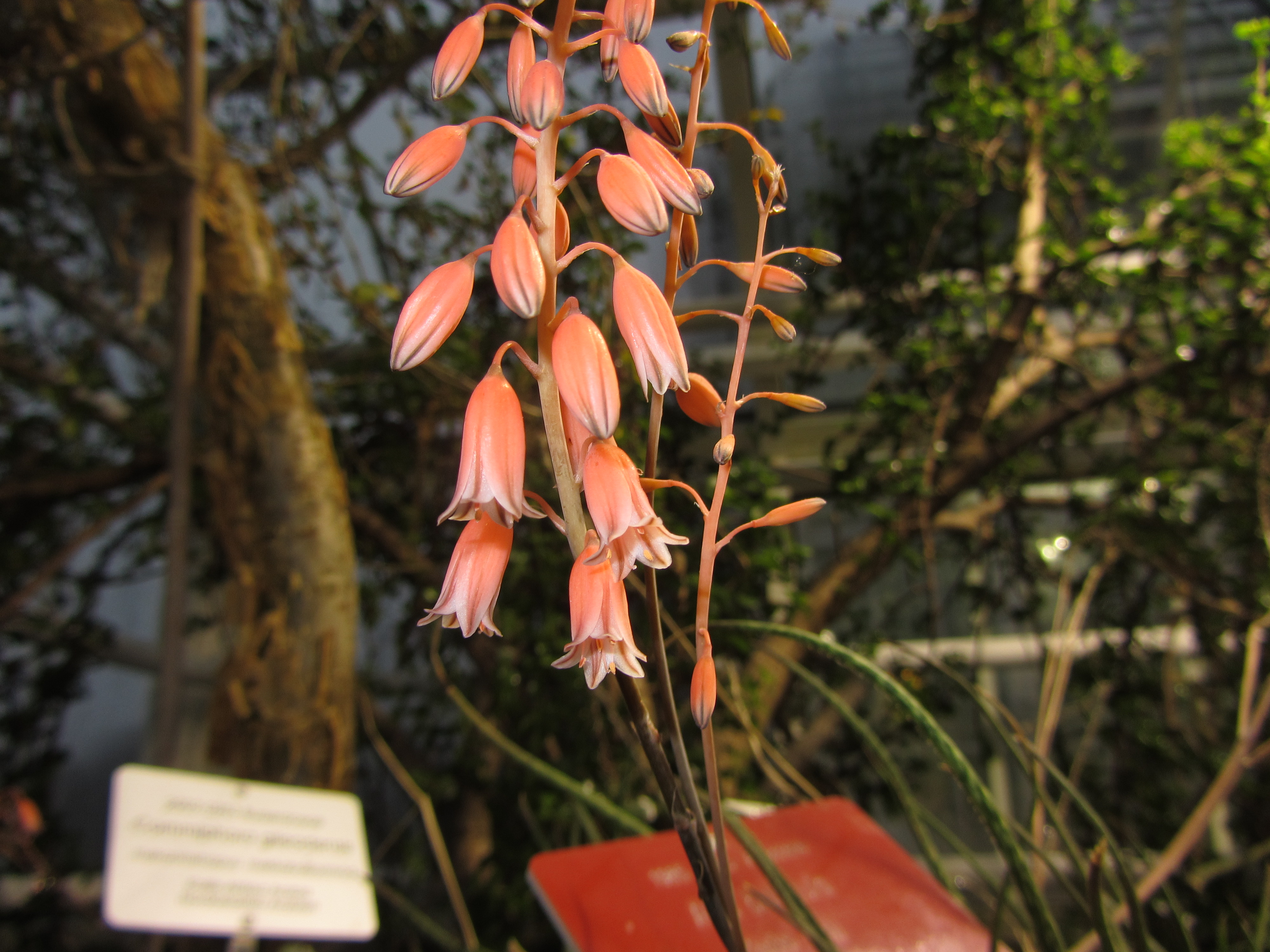 Aloe bellatula in the Glasshouses of Kaisaniemi Botanical Garden in Helsinki, Finland